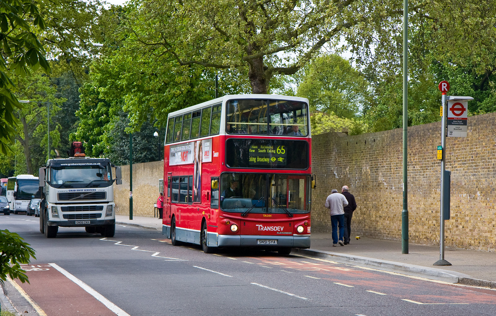 A London bus, a Transdev bus TA204 (reg. SN51 SYA), a 2001 Dennis Trident double-decker with Alexander ALX400 bodywork. Pictured on Kew Road near Kew, operating route 65 to Ealing Broadway.